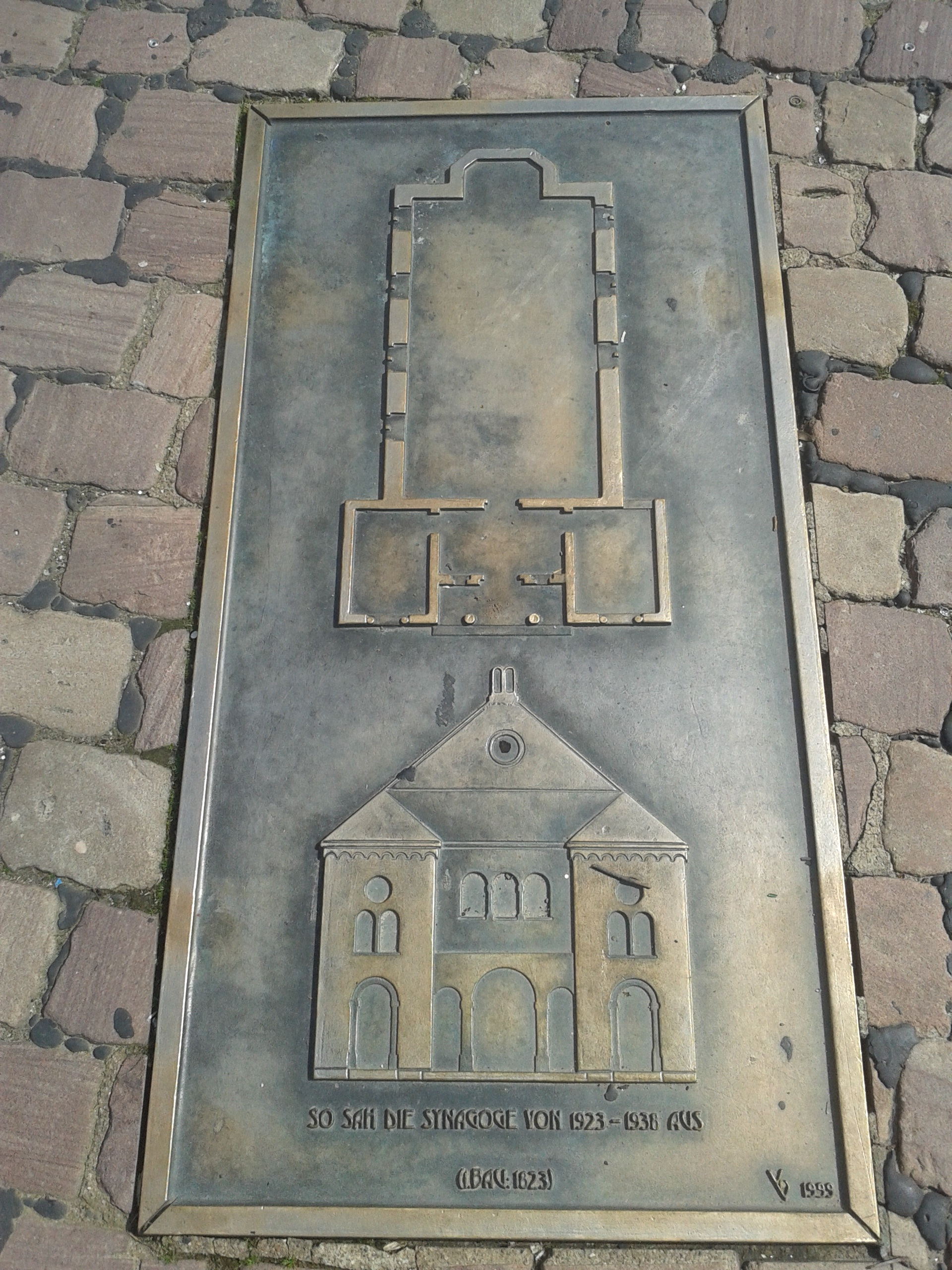 Memorial Plaque - Old Synagoge of Emmendingen, Schlossplatz, 2018 Аҧсшәа: Gedenktafel, Bodenplatte - Grundriss der Alten Synagoge Emmendingen, Schlossplatz, 2018.